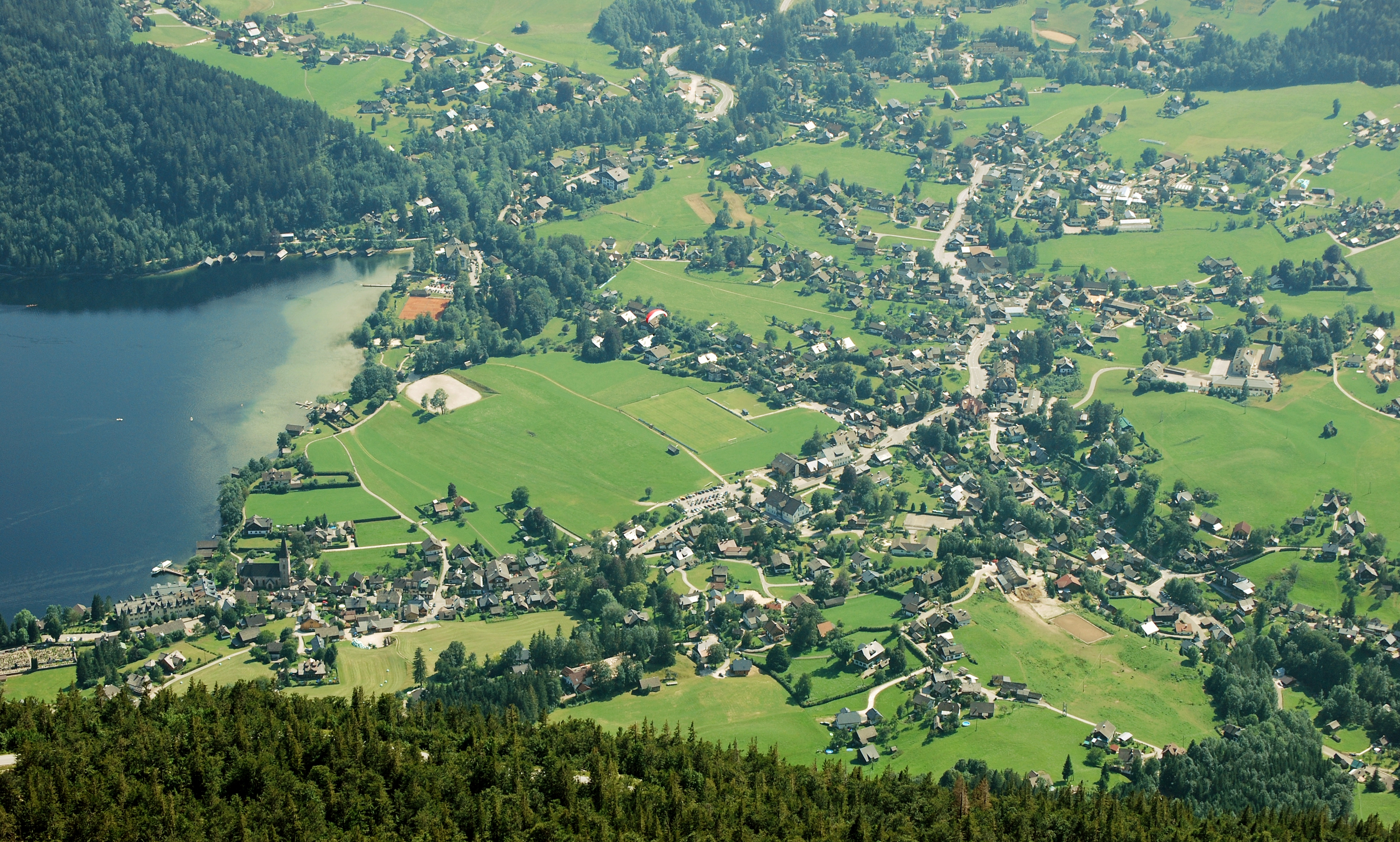 Altaussee seen from the mountain Loser